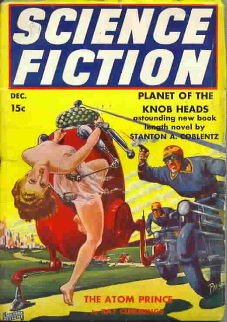 December 1939 cover of the Science Fiction magazine, volume 1, issue 5.